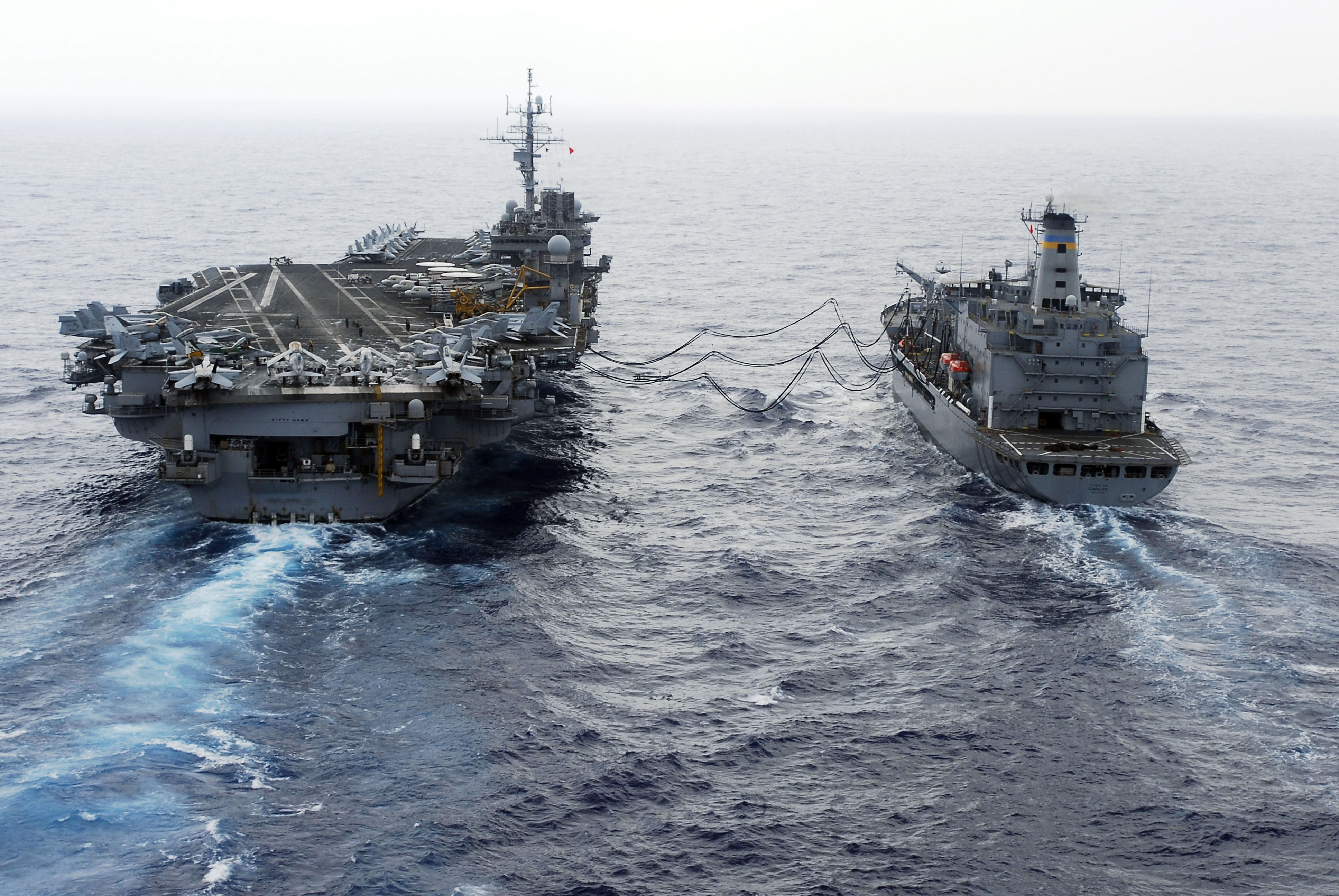 PACIFIC OCEAN (June 26, 2008) The aircraft carrier USS Kitty Hawk (CV 63) receives fuel from the Military Sealift Command fleet replenishment oiler USNS Guadalupe (T-AO 200) while steaming through the central Pacific Ocean. The ships will both be taking part in the 'Rim of the Pacific' exercise off Hawaii in July with units from Australia, Chile, Japan, the Netherlands, Peru, South Korea, Singapore, and the United Kingdom. Taking part in RIMPAC will be 35 ships, six submarines, more than 150 aircraft, and 20,000 sailors, airmen, marines, soldiers and coast guardsmen. This will be Kitty Hawk's last exercise before returning to the U.S. mainland for decommissioning in early 2009. Kitty Hawk will be replaced by the nuclear-powered aircraft carrier USS George Washington (CVN 73) this summer as the only U.S. carrier operating from Japan. U.S. Navy photo by Mass Communication Specialist Seaman Anthony R. Martinez (Released)